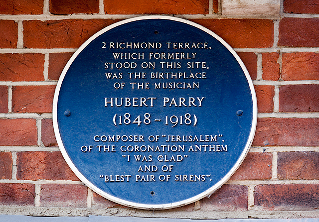 Bournemouth Blue Plaques: No. 25 - Hubert Parry